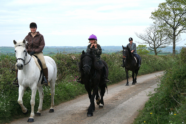 Morchard Bishop: near East Aish Looking north-north-east with the riders heading away from Moor Farm